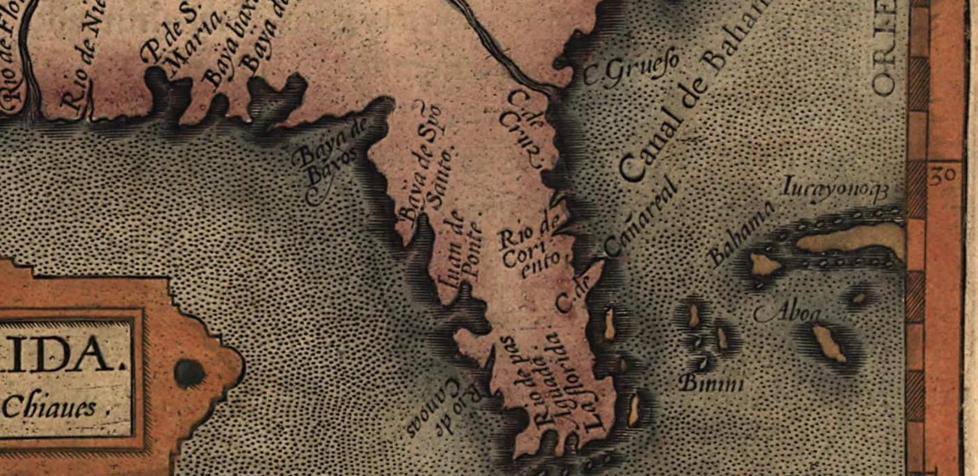 Image of a map from the 1584 edition of Abraham Ortelius' Theatrum Orbis Terrarum, Additamentum III, Antwerp 1584. The image is only being used in the article about a historical place (La Florida) for informational and educational purposes.